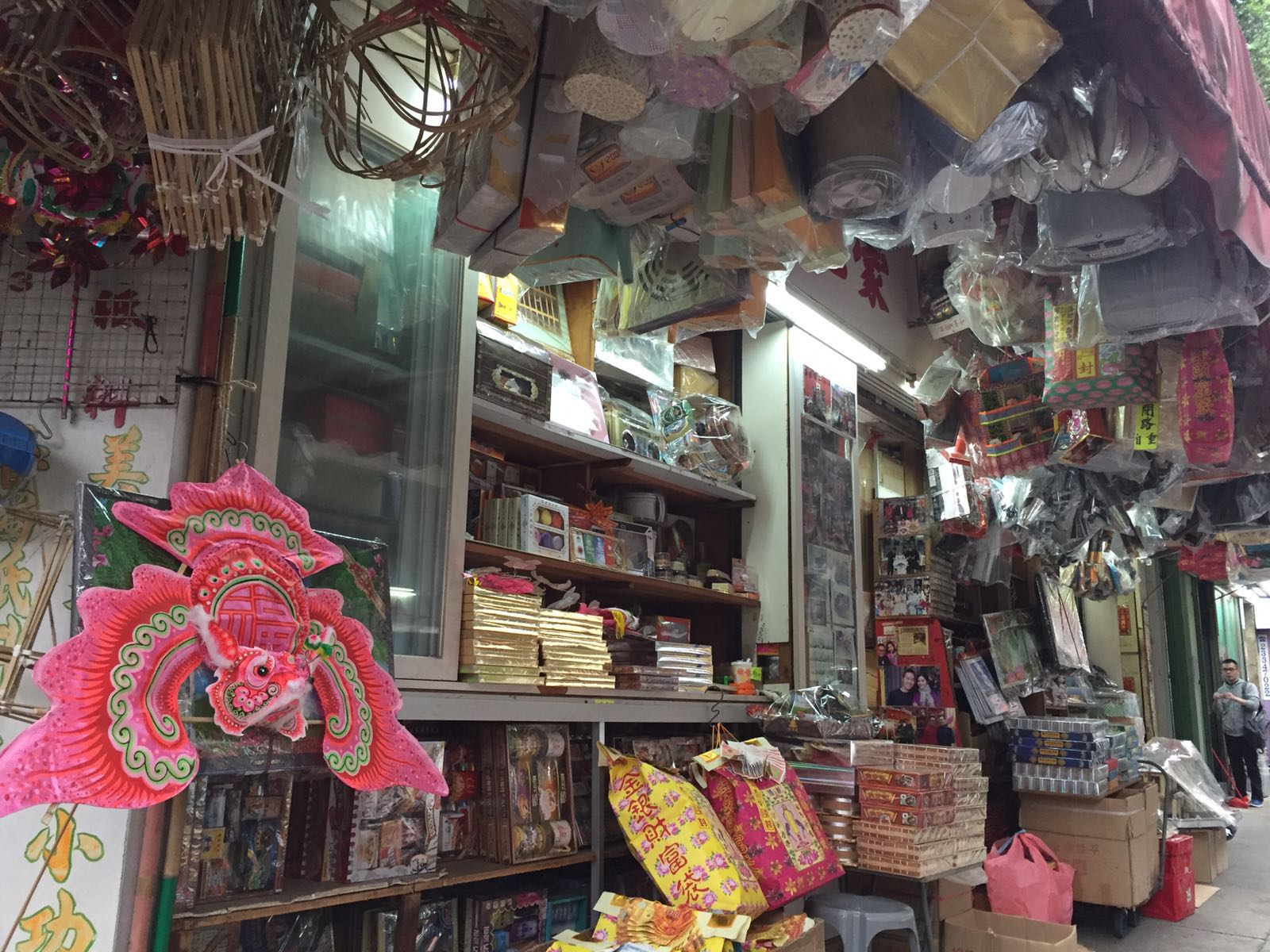 zhi zha shop